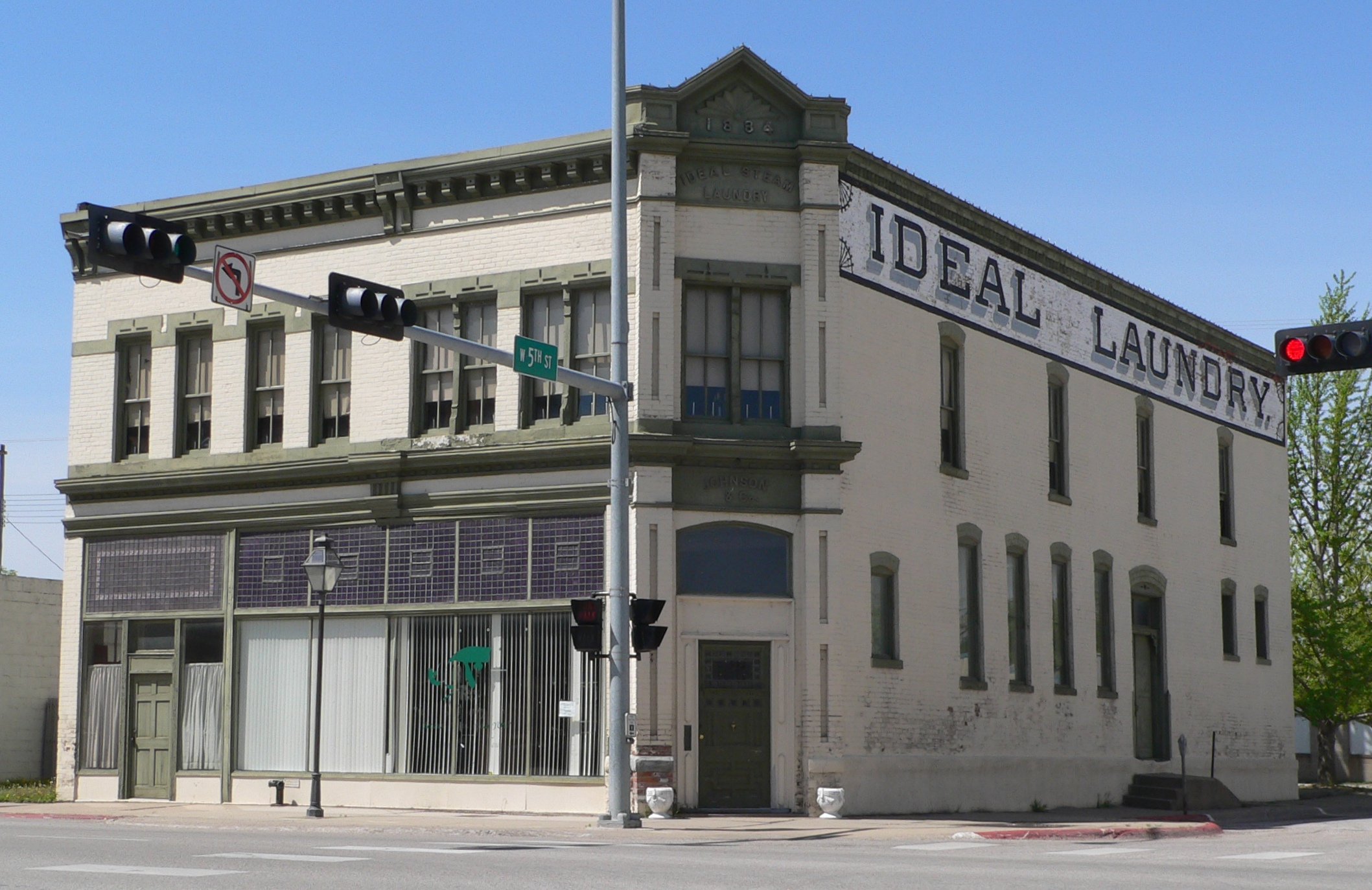 Osterman and Tremaine Building, a.k.a. Ideal Steam Laundry Building, in Fremont, Nebraska; seen from the northeast. The building was constructed in 1884, and is listed in the National Register of Historic Places.